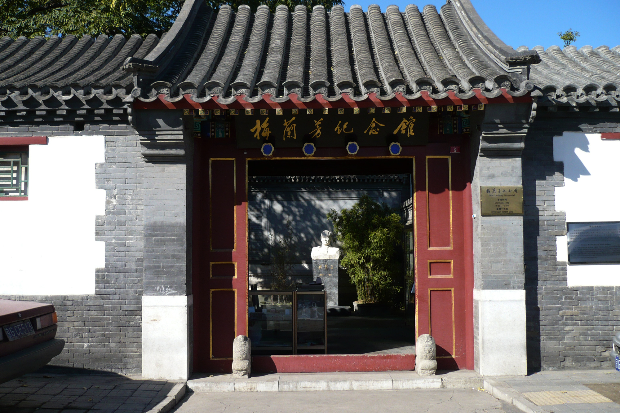 Mei Lanfang Memorial, Beijing